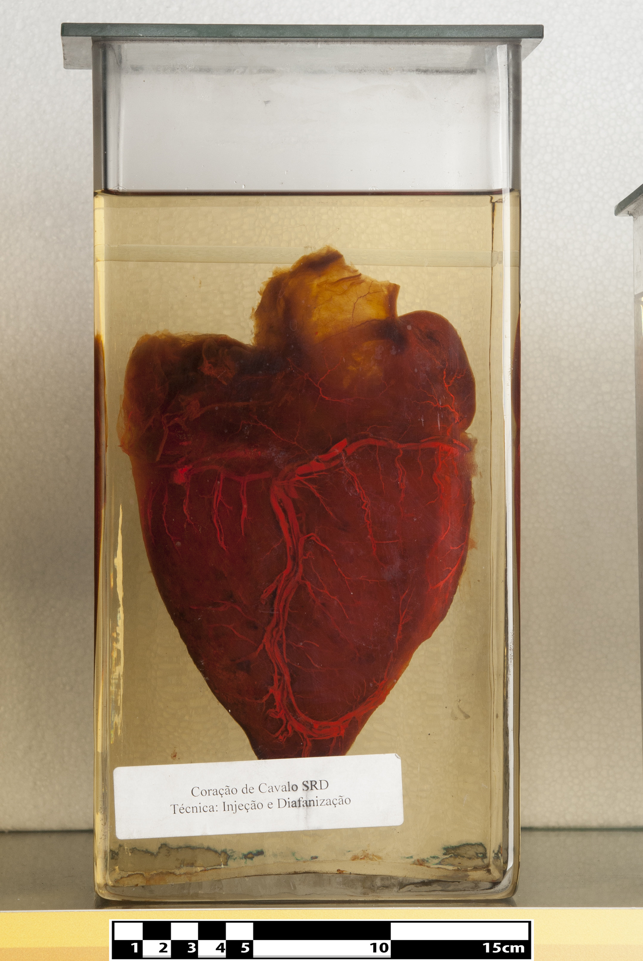 Equine heart (mixed breed). Equus Gelatin injection and Spalteholz diaphanization – specimen clarified for visualization of anatomical structures on display at the Museum of Veterinary Anatomy, FMVZ USP. Spalteholz diaphanization is a tissue clearing technique, described here. This file was published as the result of a partnership between the Museum of Veterinary Anatomy FMVZ USP, the RIDC NeuroMat and the Wikimedia Community User Group Brasil. This GLAM project is reported. Photography: Museum of Veterinary Anatomy FMVZ USP. Author: Wagner Souza e Silva.